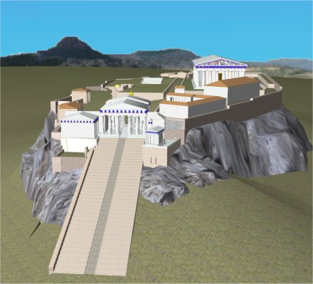 Overall view of the reconstruction of the Akropolis of Athens by Kronoskaf - Snapshot of a real time rendering of the prototype